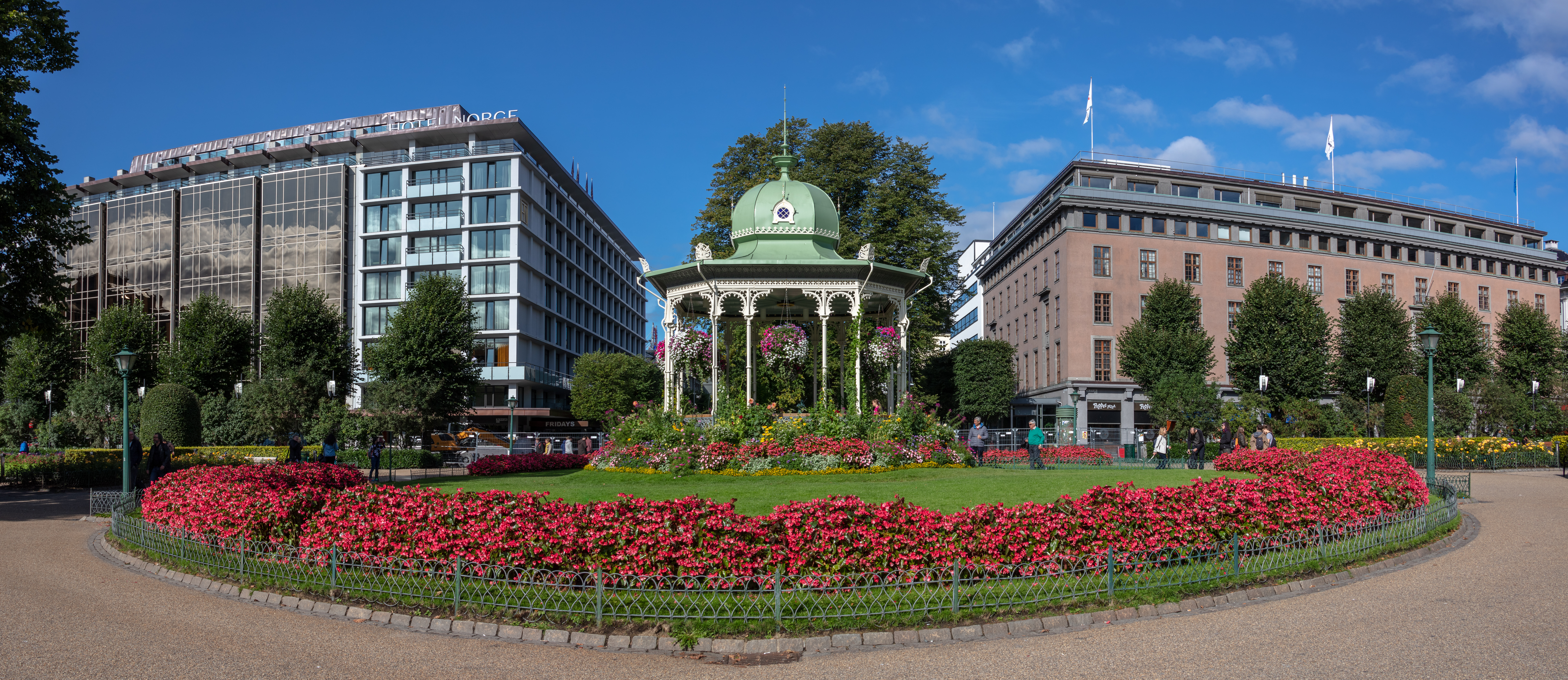 Musikkpaviljongen, Bergen, Norway